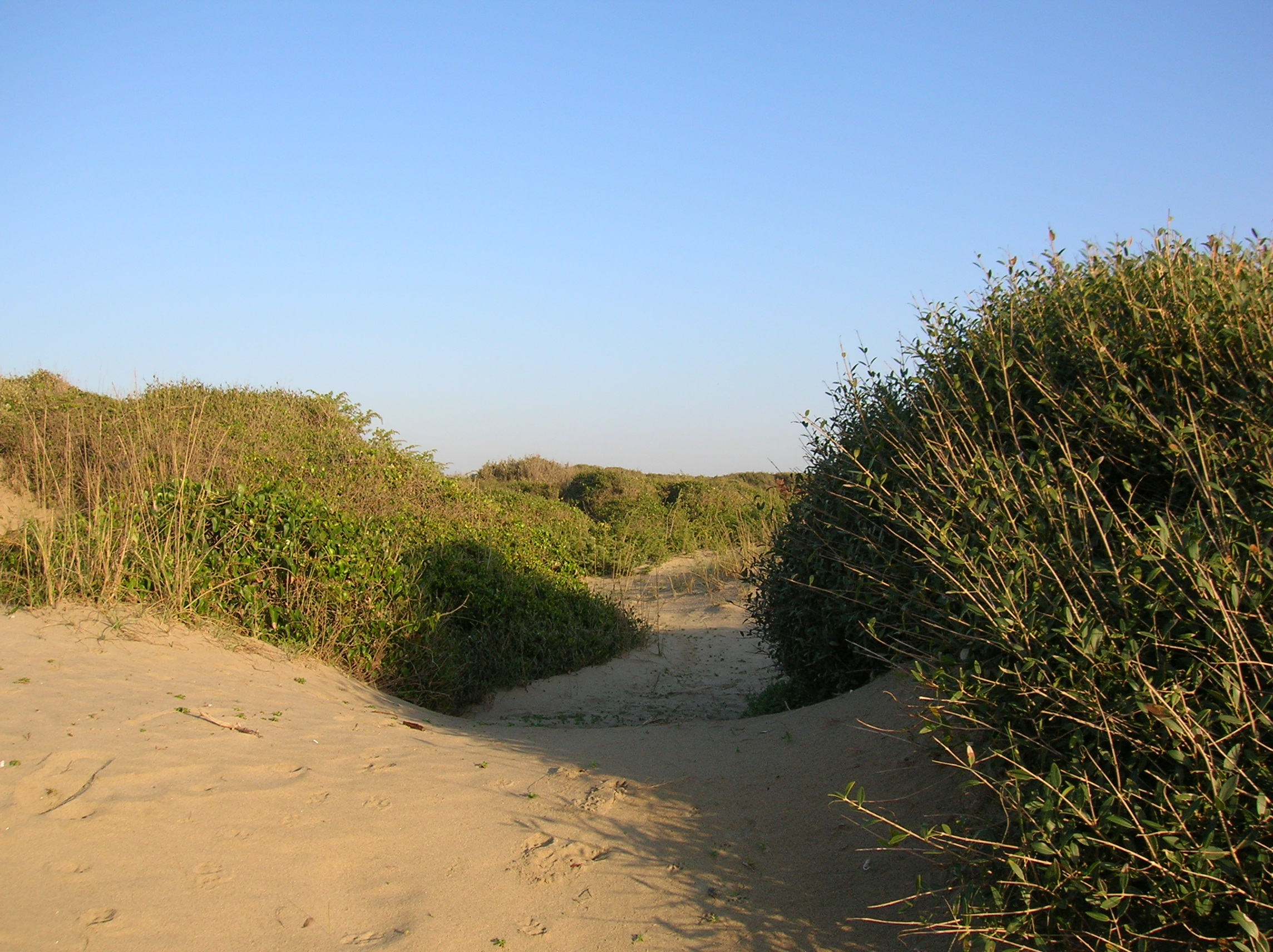 Capocotta dunes, in Nature Reserve "Litorale Romano", Ostia, Rome, Italy.